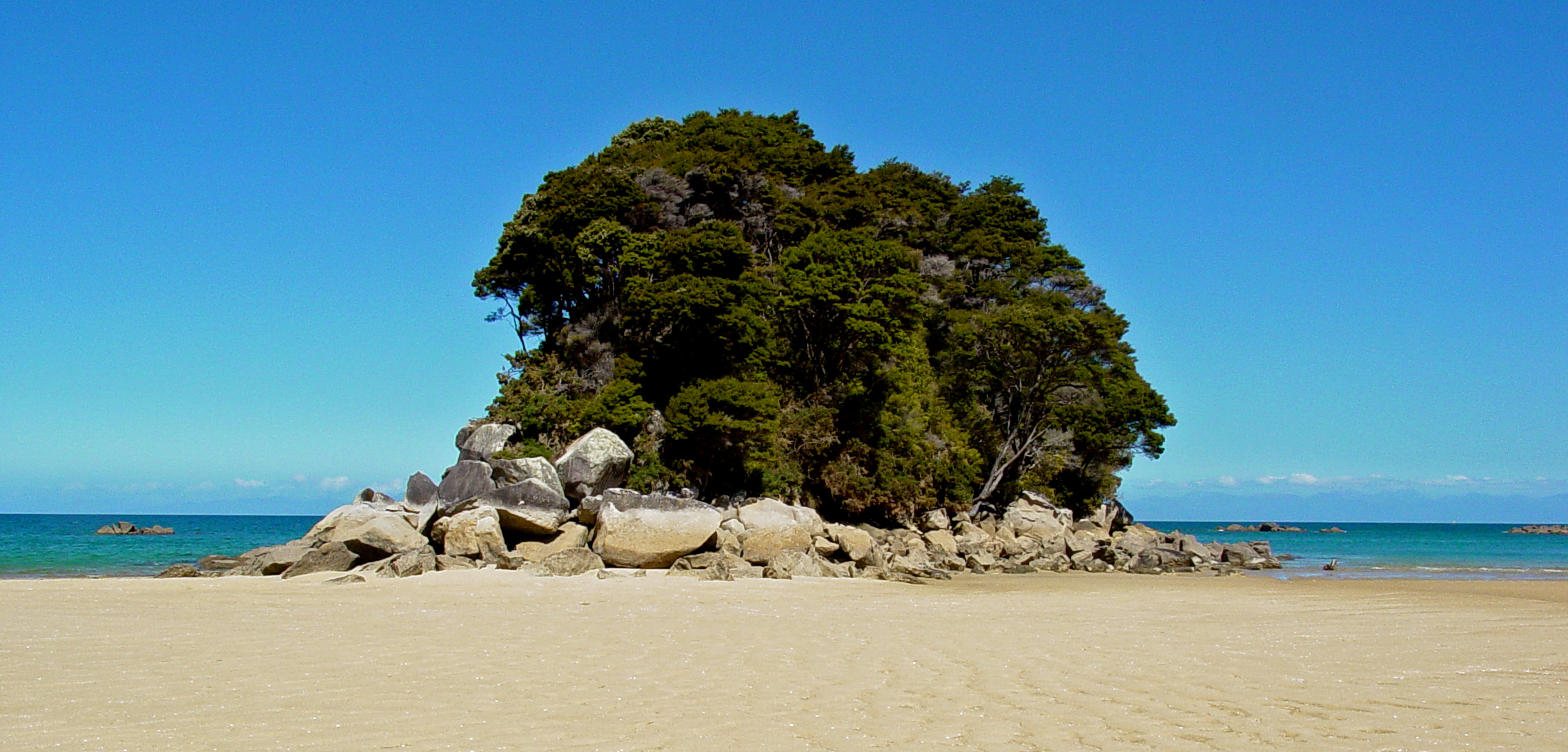 Low tide near Bark Bay, New Zealand